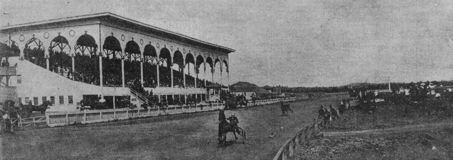 Irvington Racetrack (now Irving Park) in Portland, Oregon in 1907